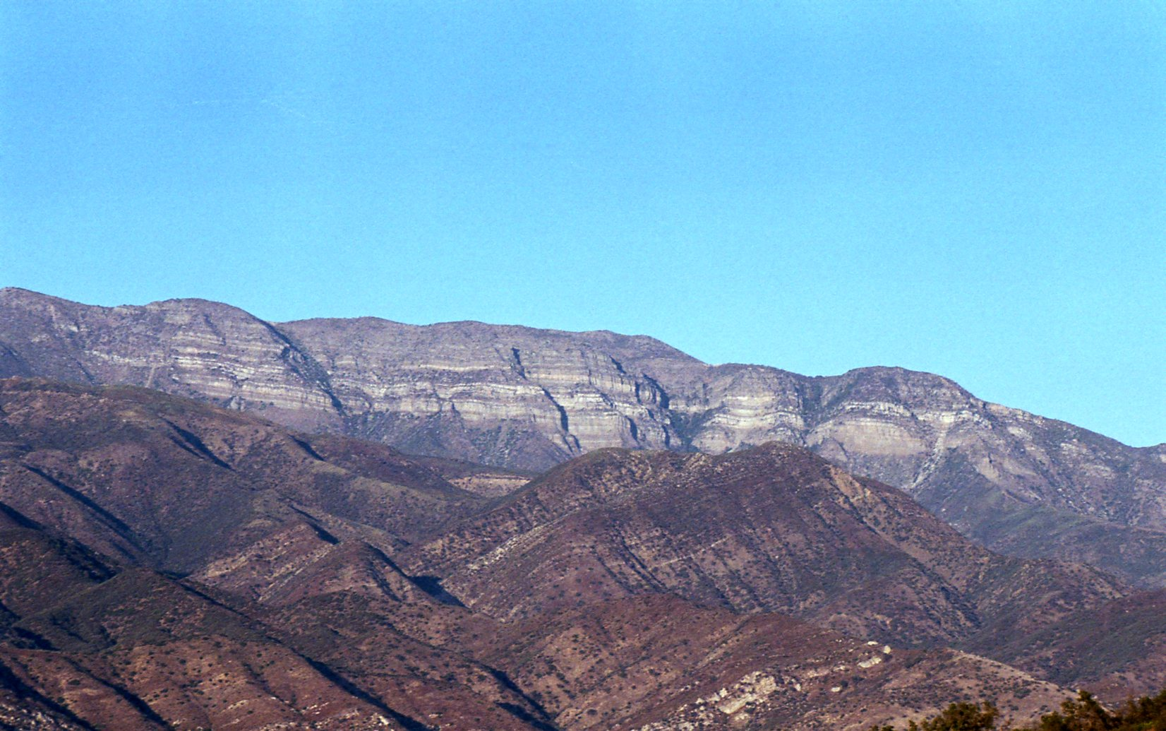 view of the Topa Topa Mountain range from upper Ojai